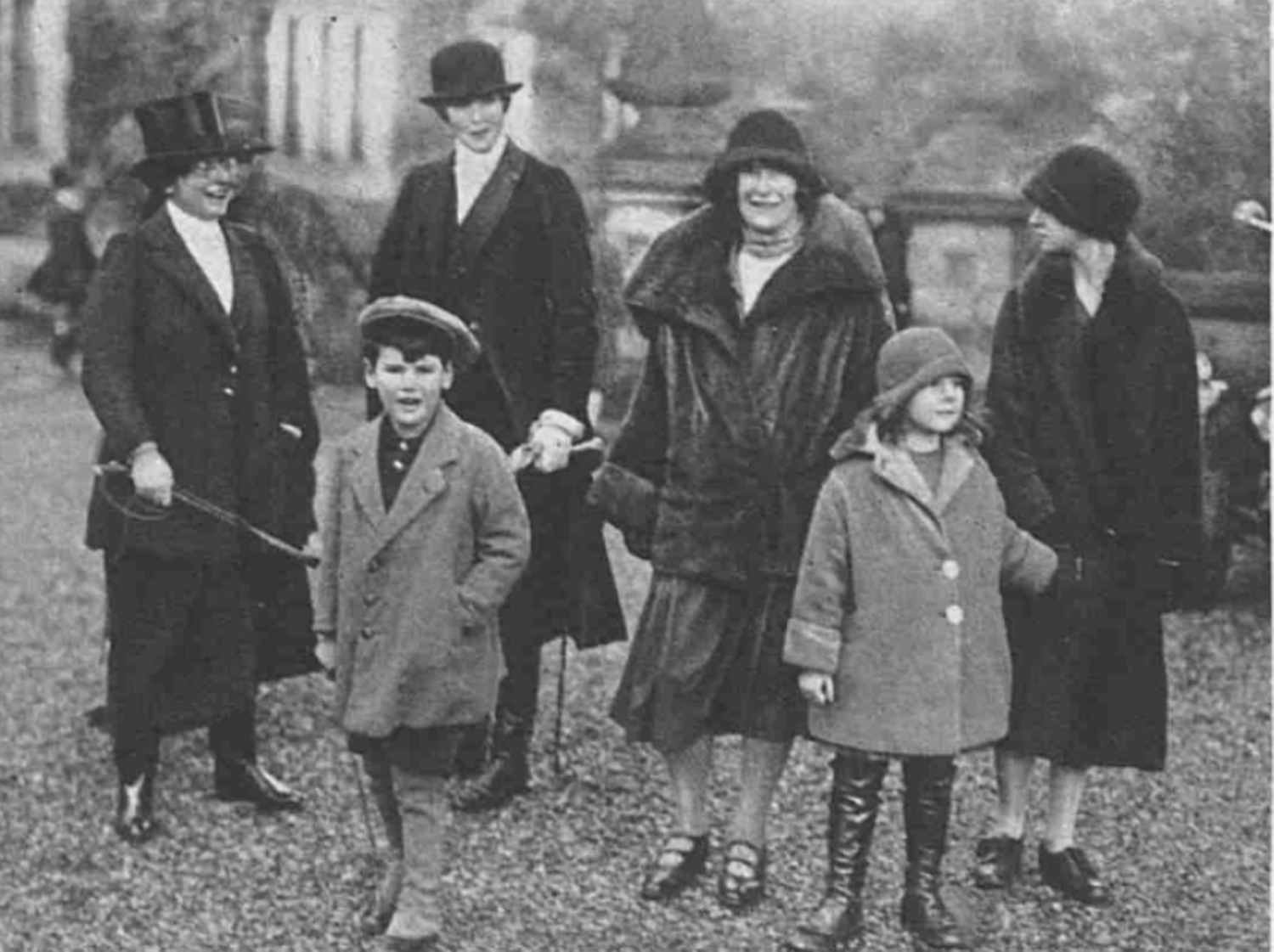 House party at Beaumanor Hall, Woodhouse in 1926